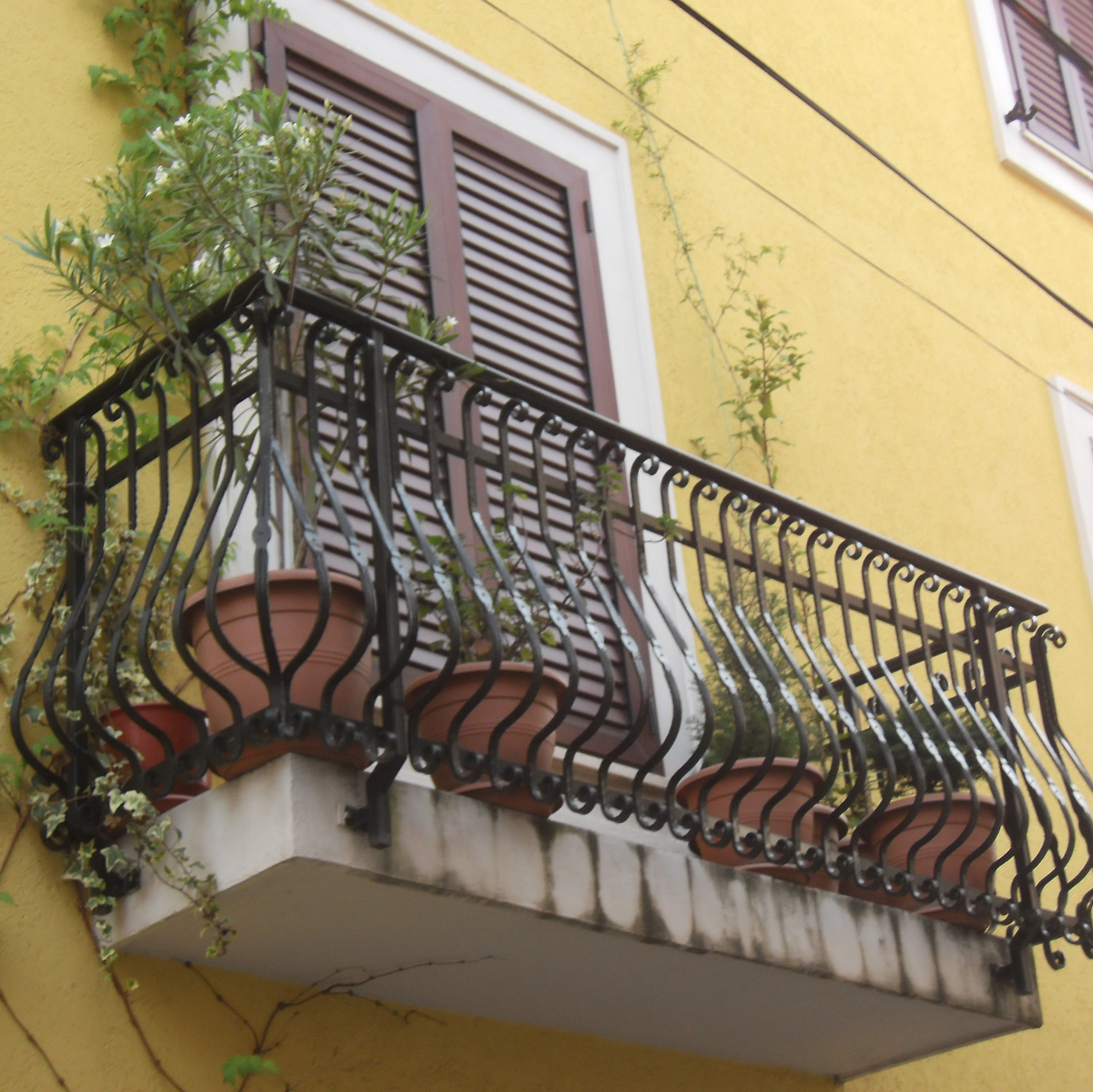 Balcony in Shkodra, Albania